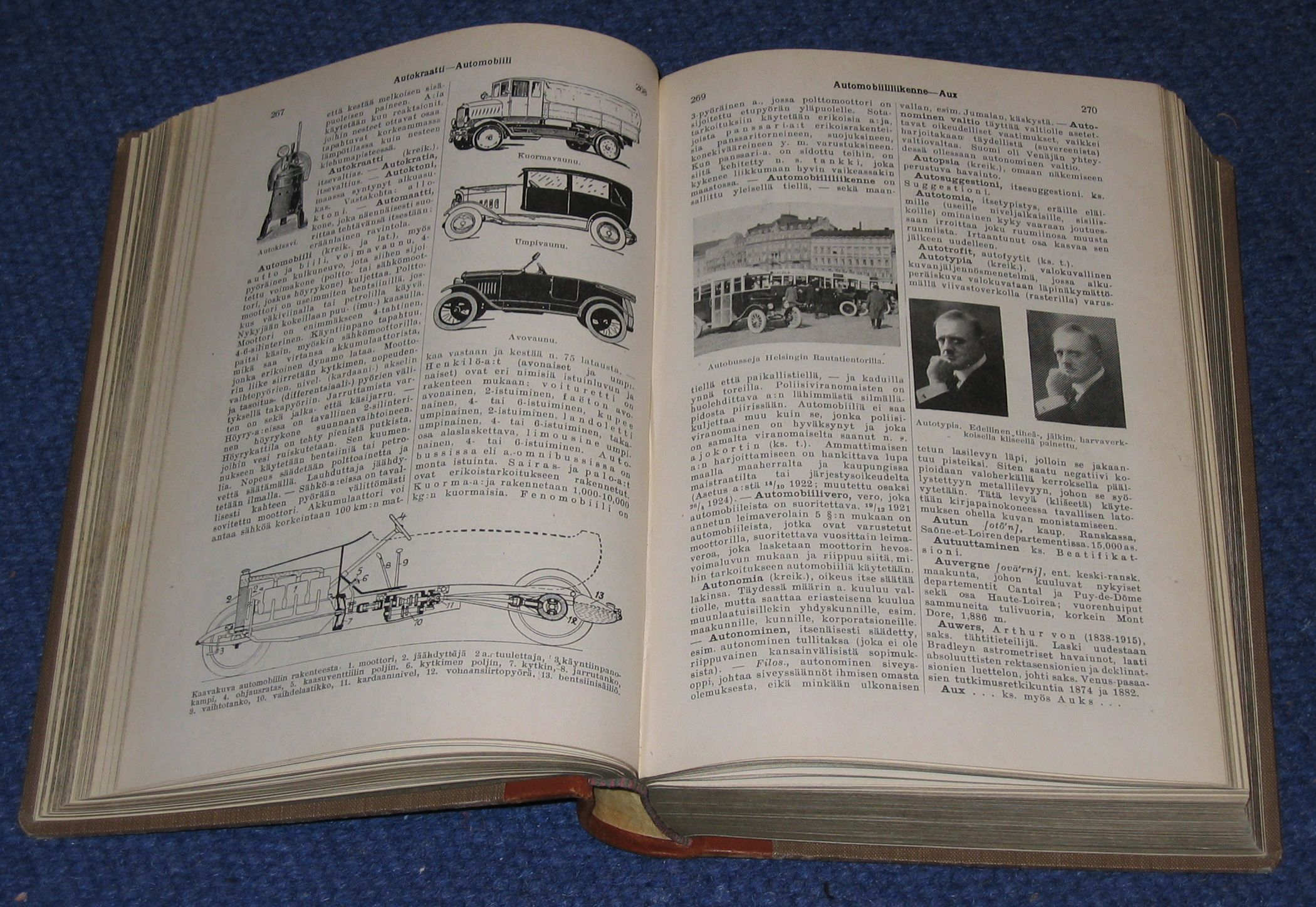 Sample book pages. "Pieni tietosanakirja", vol. 1 (of 4), 1925, Finnish small encyclopedia.